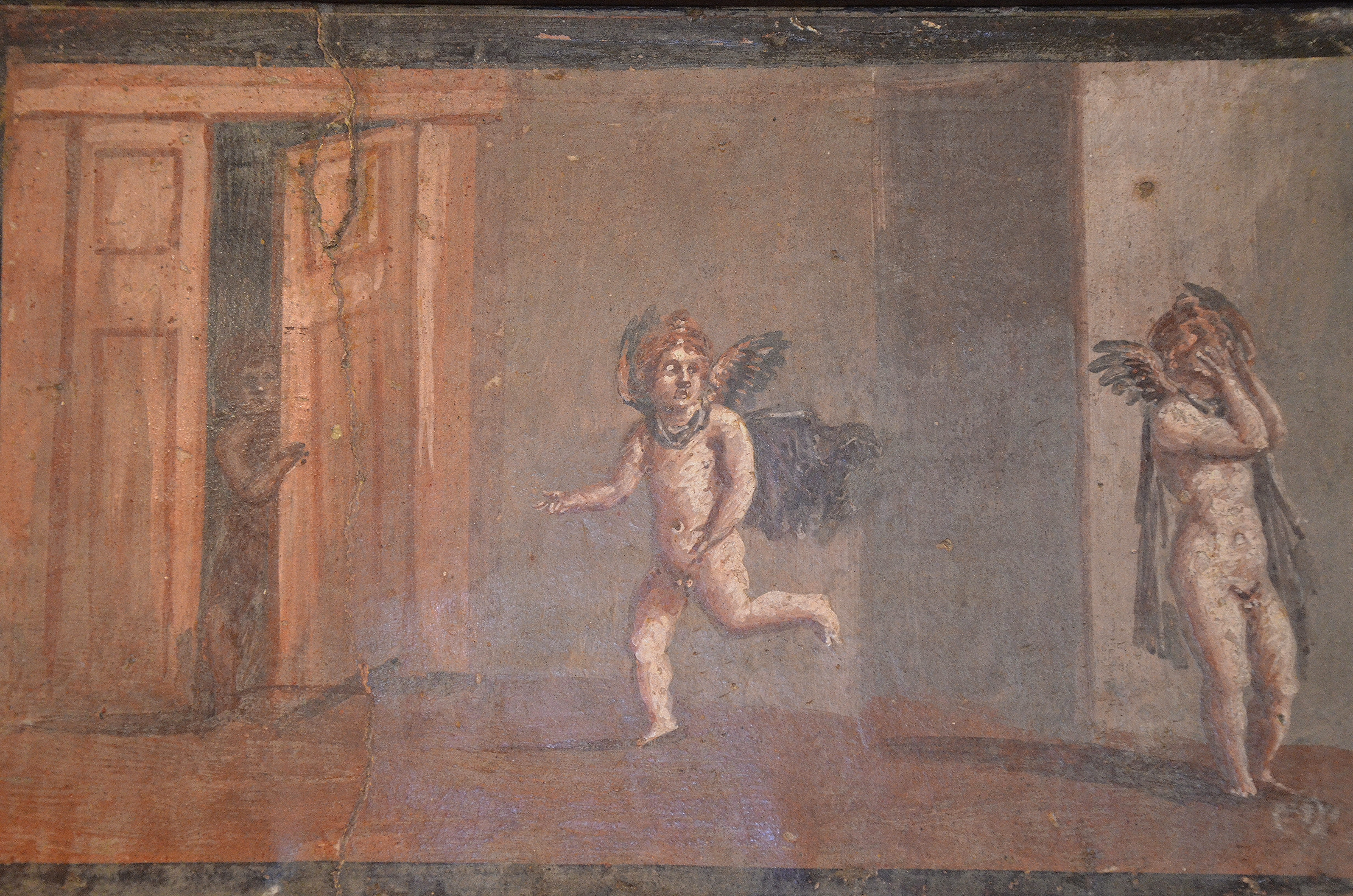 Fresco depicting Cupids playing hide-and-seek, from the cryptoporticus of the House of the Deer in Herculaneum, Empire of colour. From Pompeii to Southern Gaul, Musée Saint-Raymond Toulouse